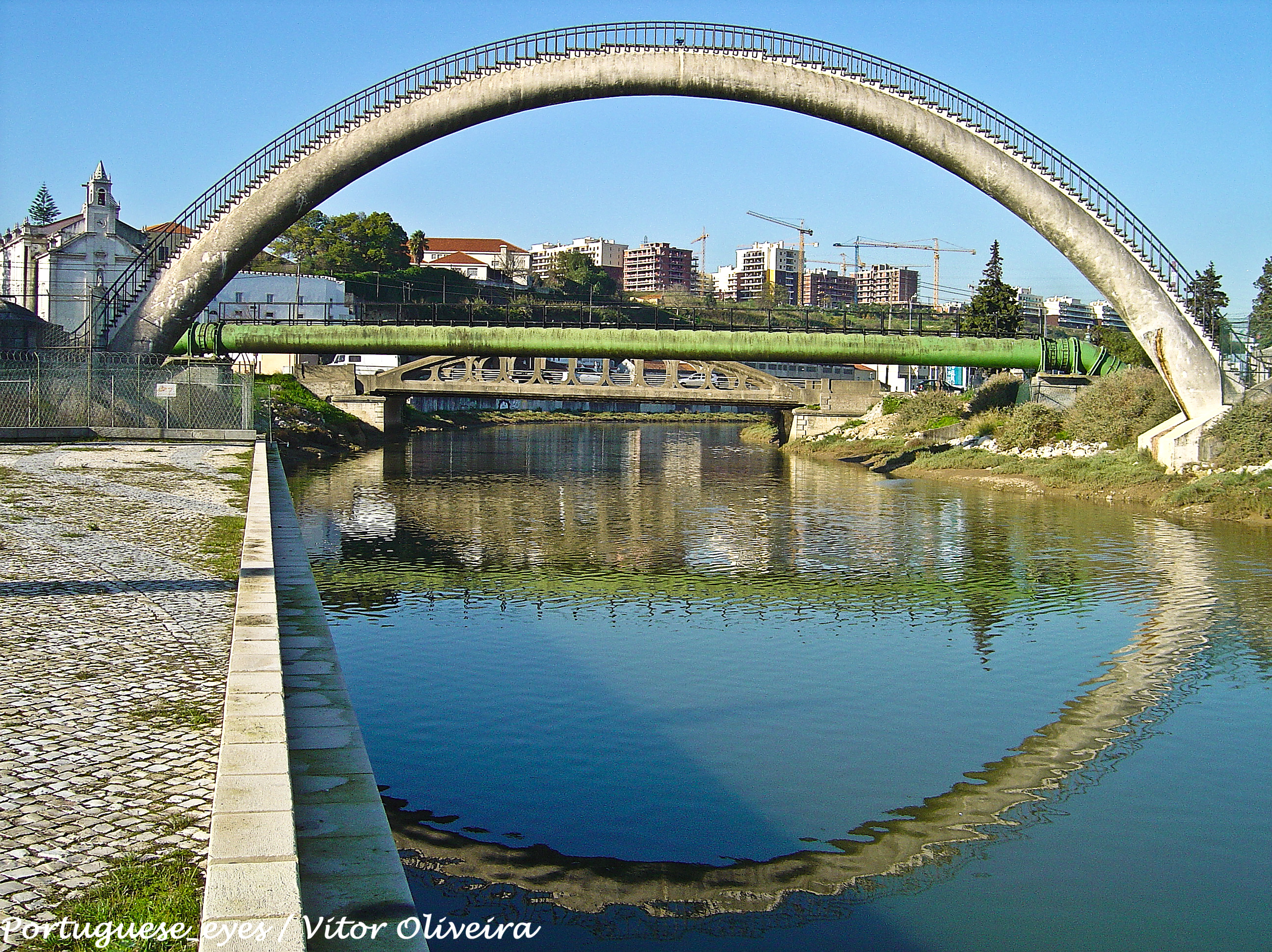 See where this picture was taken. [?]